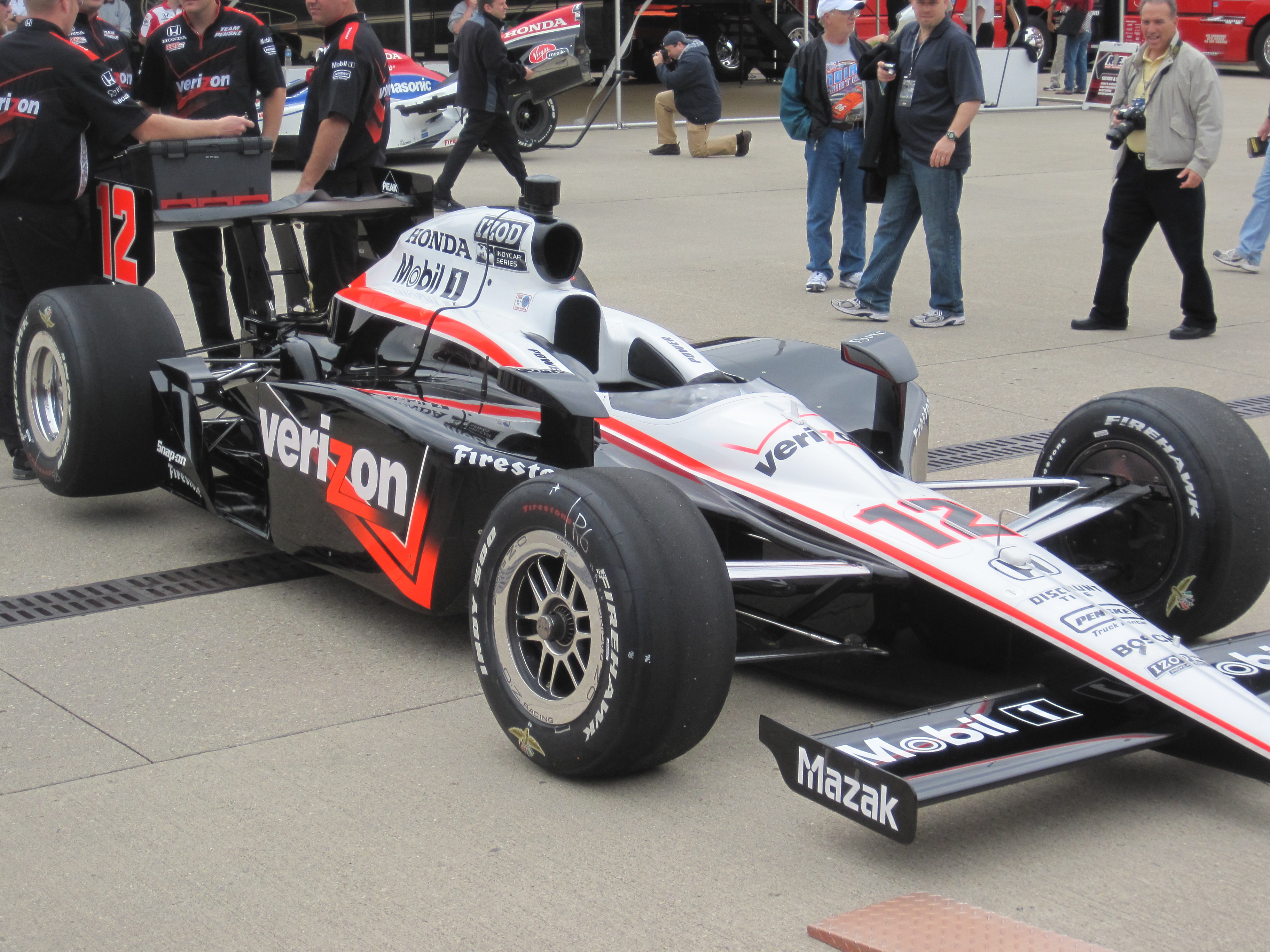 Will Power's car at the Indianapolis Motor Speedway for day 7 of practice (Fast Friday) for the 2010 Indianapolis 500 on Friday, May 21, 2010.